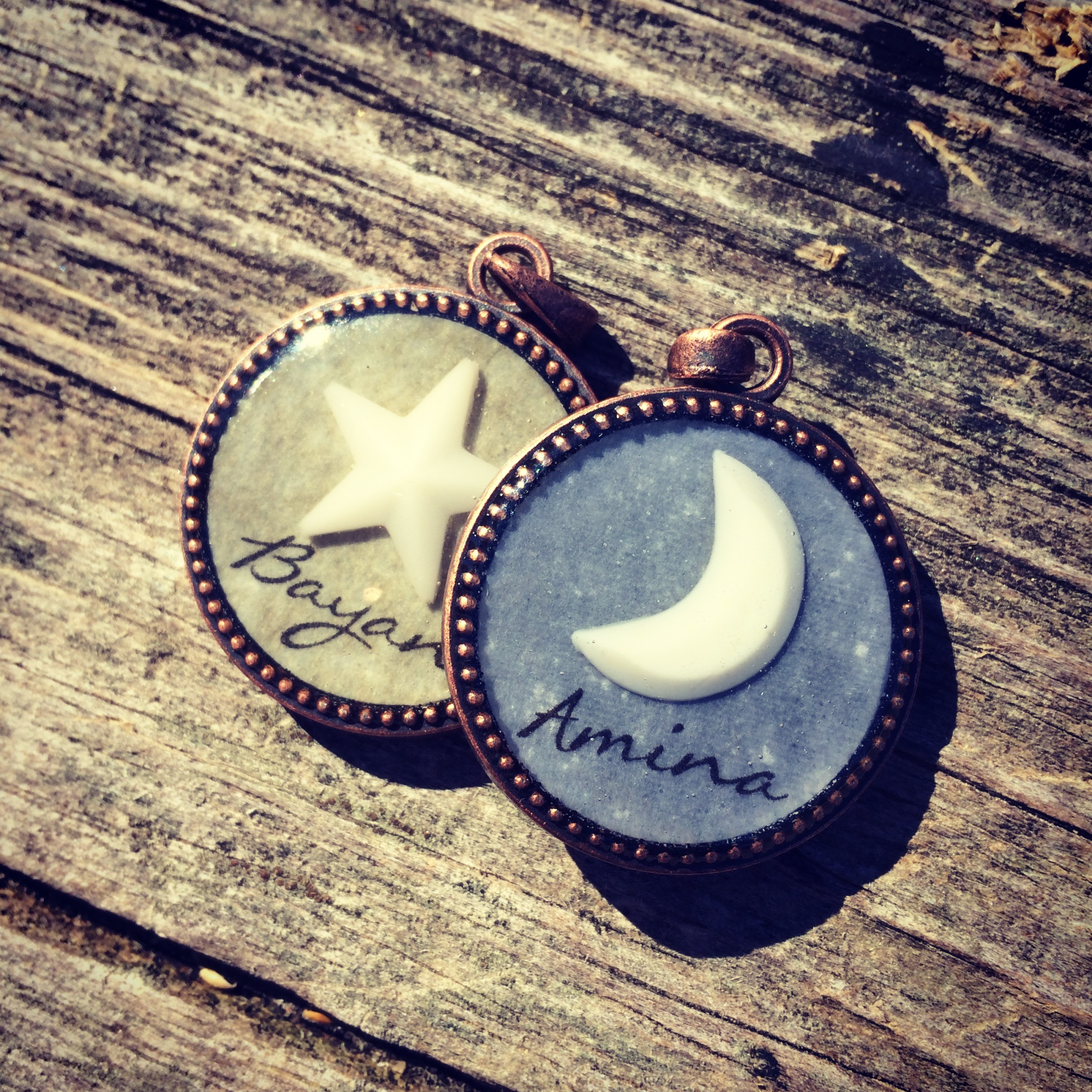 Bezel set breast milk pendants, one with a breast milk crescent shape, one with a star shape; on colored backgrounds with names.